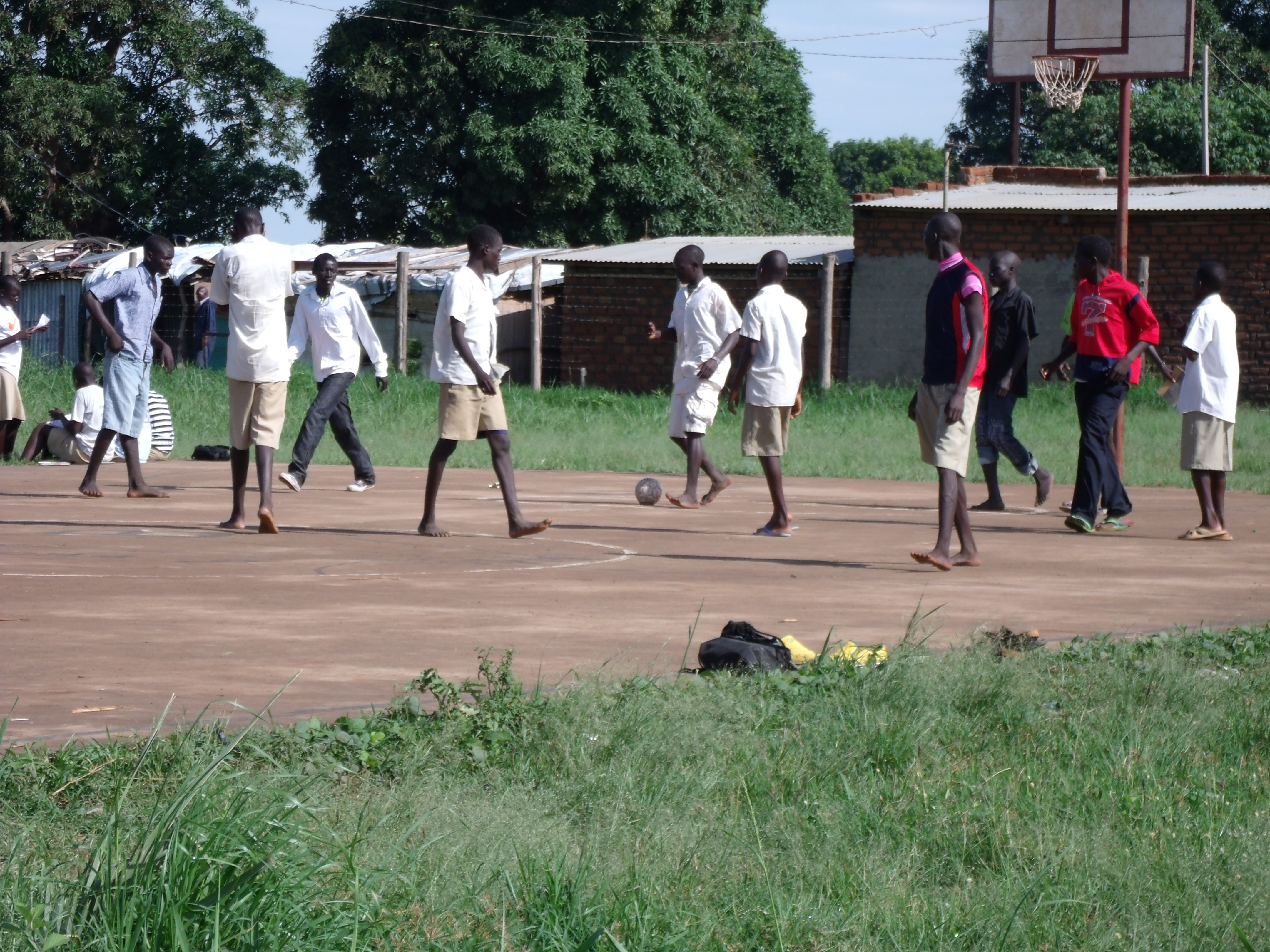 Photo taken by Rahul Ingle, May 2012